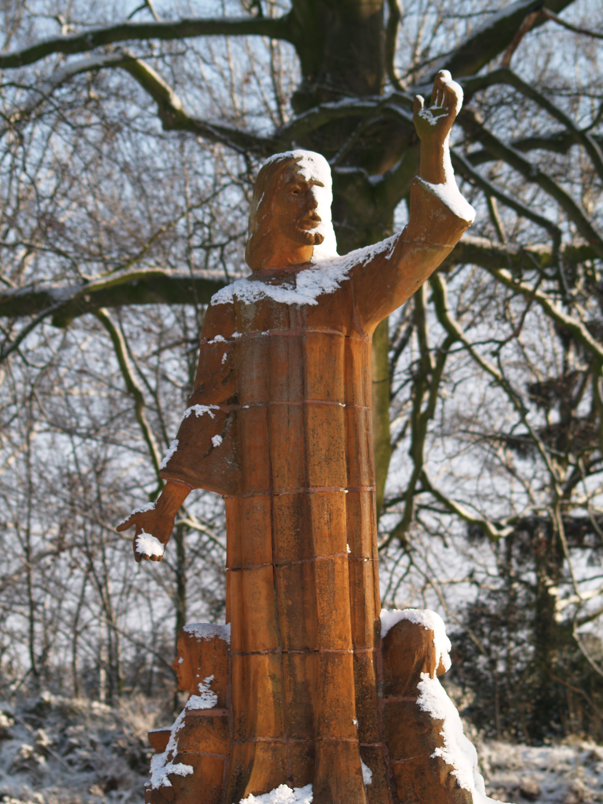 Baarlo Freedom